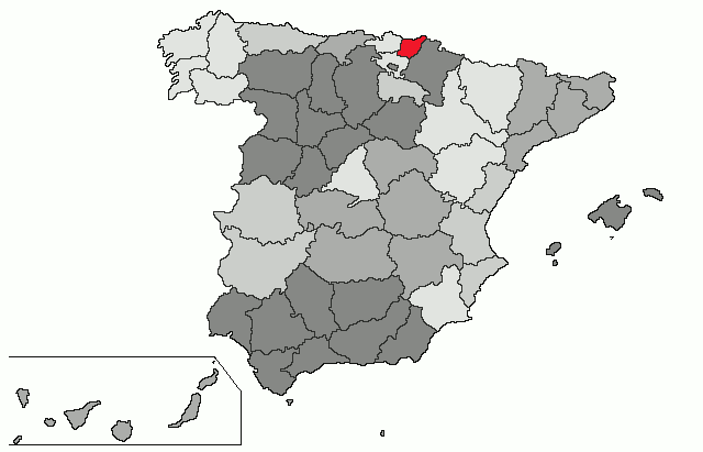 Province of Gipuzkoa Based in Image:ProvPont.jpg Source: Designed by Leoplus. Original picture, designed by Sobreira.